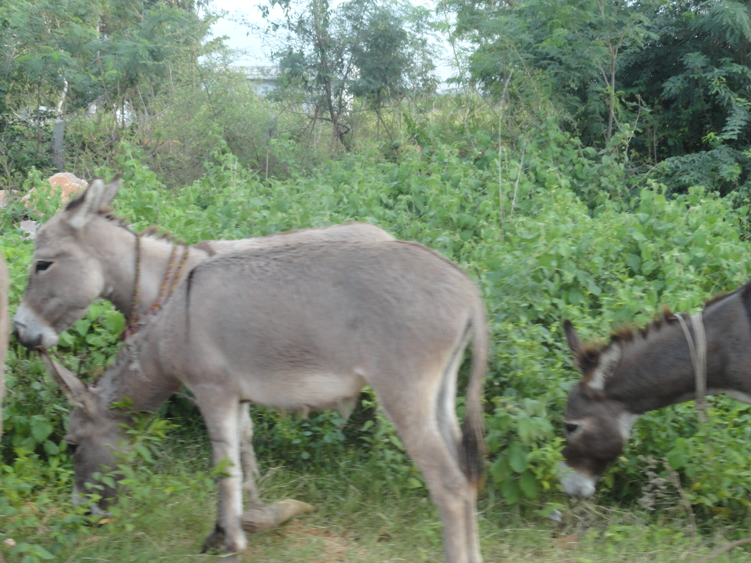 గాడిదలు